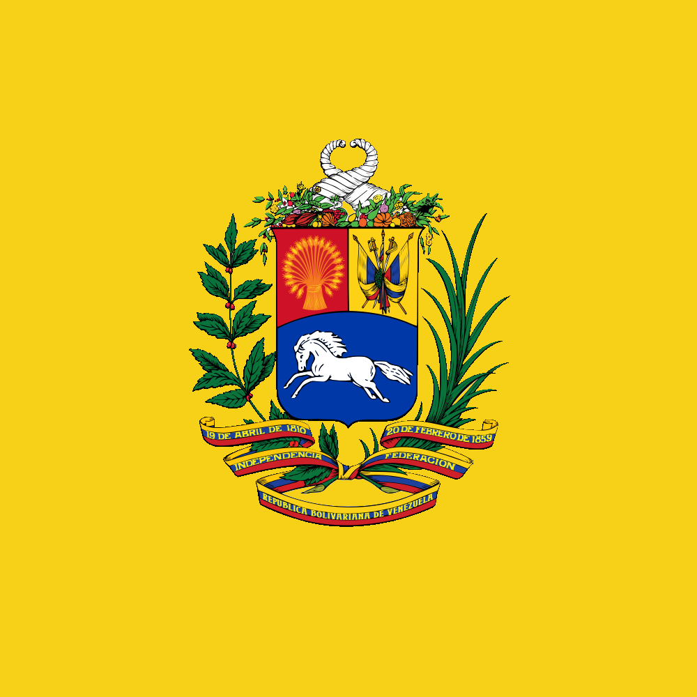 Standard of the President of Venezuala Based off this design